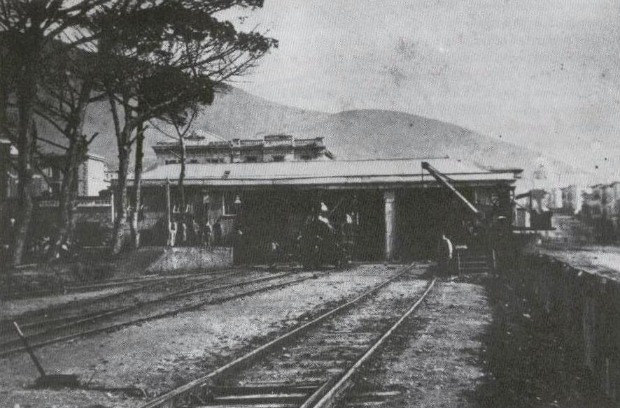 Cape Towns first Train Station. Viewed from direction of the Castle. Small rudimentary structure replaced in 1875 by larger stone Victorian building. Cape Colony Archives. Cape Town.